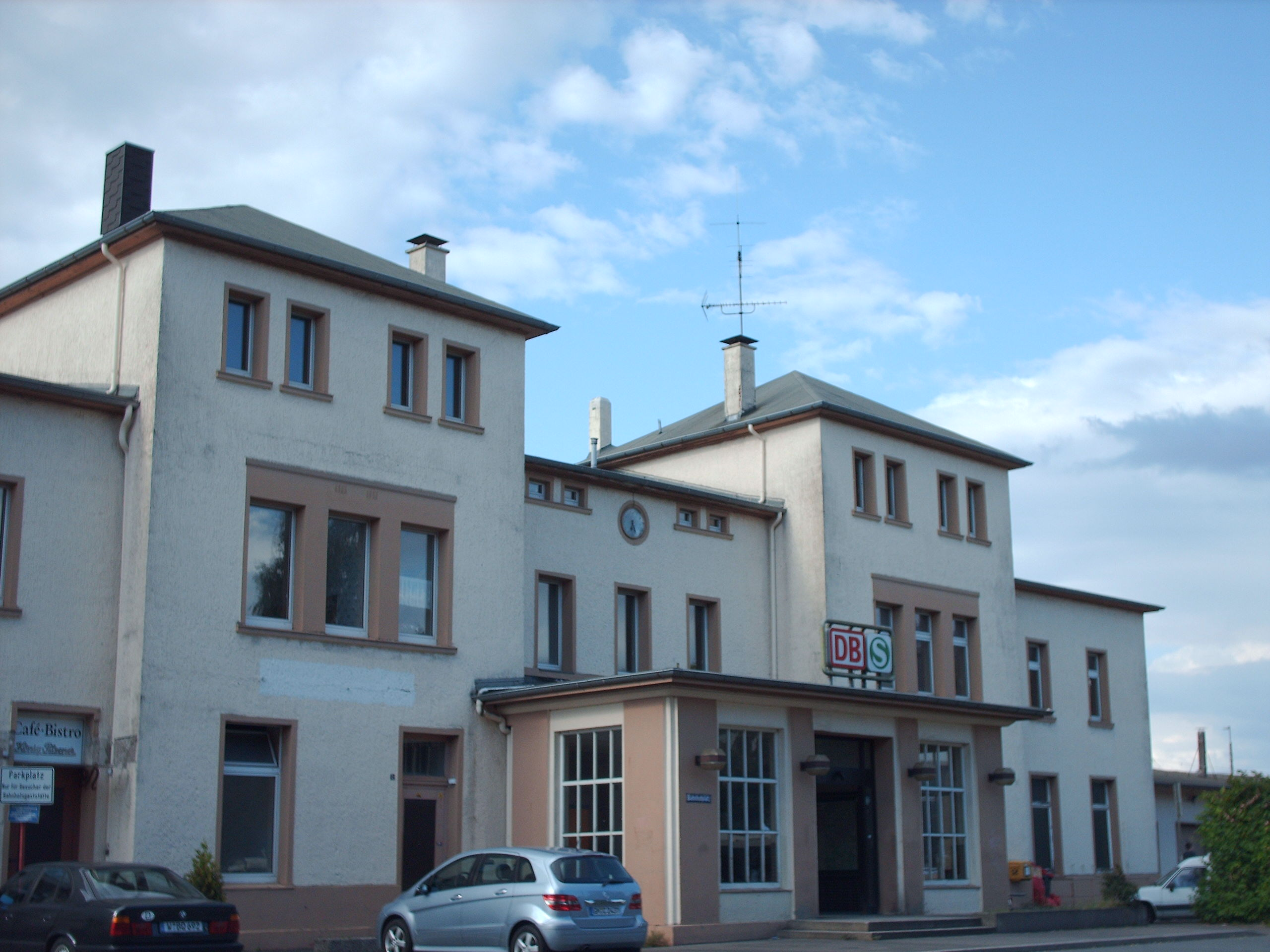 Schwelm station, Schwelm, Germany check usage